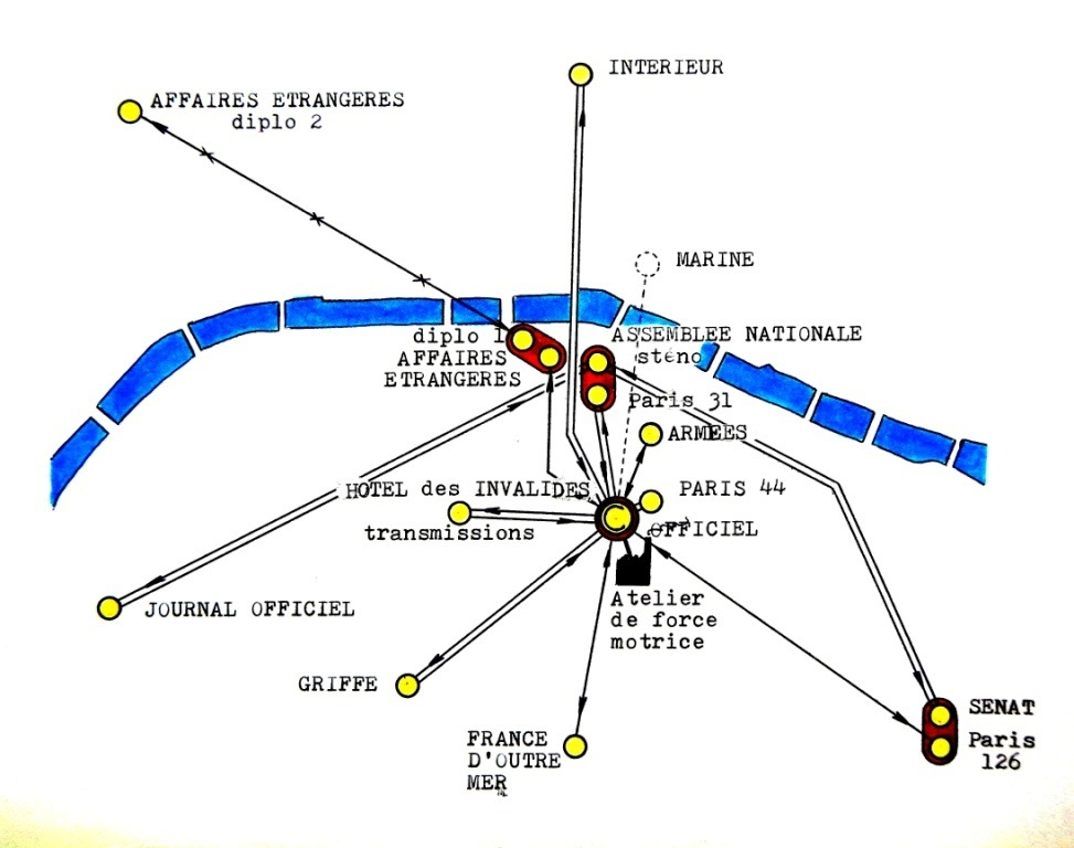 Schematic of the official pneumatic postal network in Paris